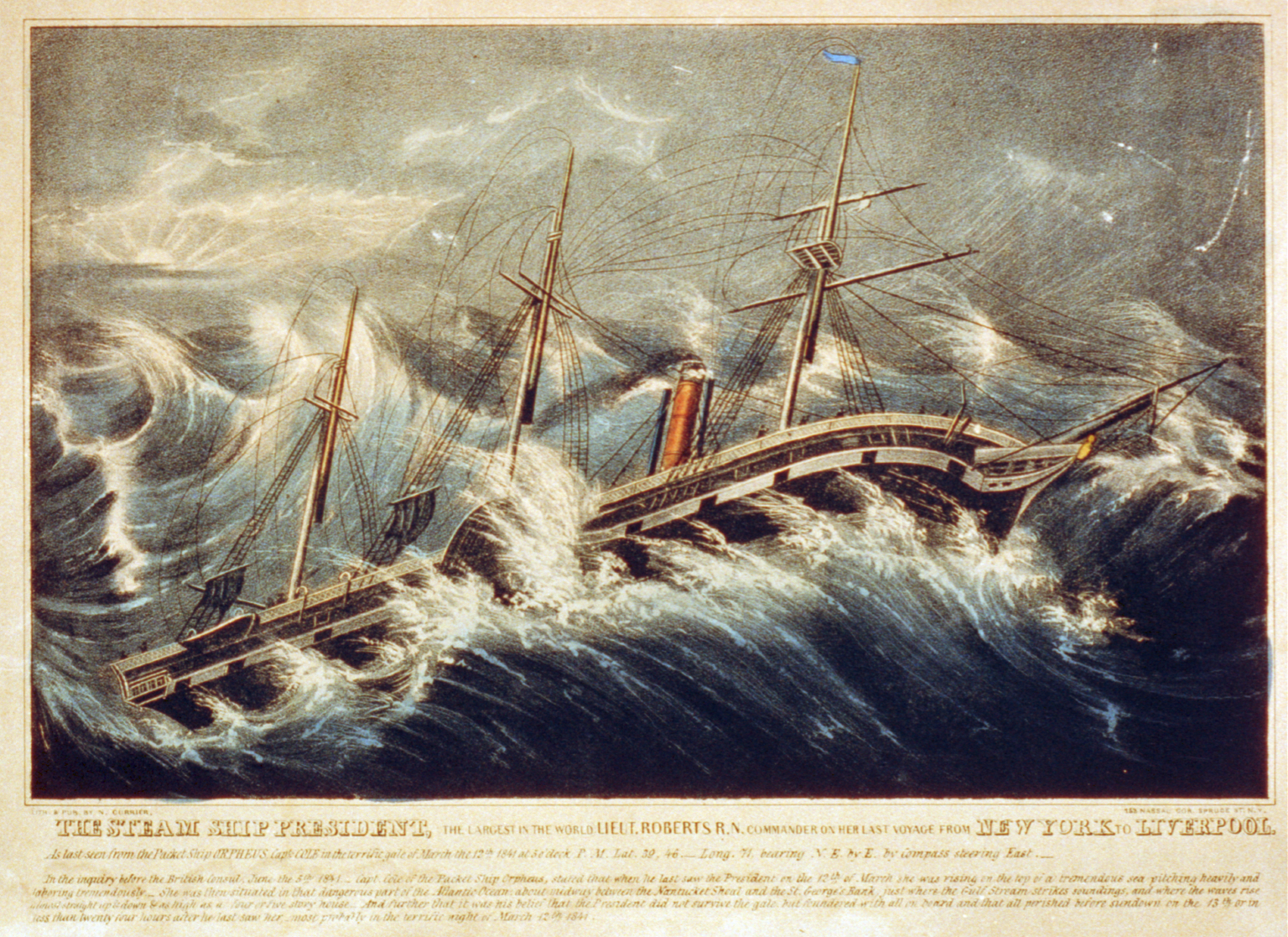 Original caption: "The Steam Ship President, The Largest in the World. Lieut. Roberts R.N. commander on her last voyage from New York to Liverpool. As last seen from the Packet Ship ORPHEUS Capt. COLE in the terrific gale of March the 12th 1841 at 5 o'clock P.M. Lat. 39, 46. Long. 71, bearing N.E. by E. by Compass steering East. In the inquiry before the British Consul, June the 5th 1841, Capt. Cole of the Packet Ship Orpheus, stated that when he last saw the President on the 12th of March she was rising on the top of a tremendous sea pitching heavily and laboring tremendously. She was then situated in that dangerous part of the Atlantic Ocean about midway between the Nantucket Shoal and the St. George's Bank, just where the Gulf Stream strikes soundings, and where the waves rise almost straight up & down & as high as a four or five story house. And further that it was his belief that the President did not survive the gale, but foundered with all on board and that all perished before sundown on the 13th or in less than twenty-four hours after he last saw her, most probably in the terrific night of March 12th 1841." (The painting's composition is strikingly similar to that in this lithograph, even though the latter one claims to depict an earlier storm which the President survived.)